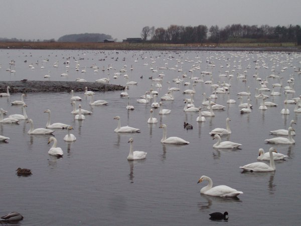 Martin Mere Wildfowl and Wetlands Trust reserve At least 600 Whooper Swans, along with Shelduck, Coots, Mallards, Greylag Geese and Pintails at Martin Mere.